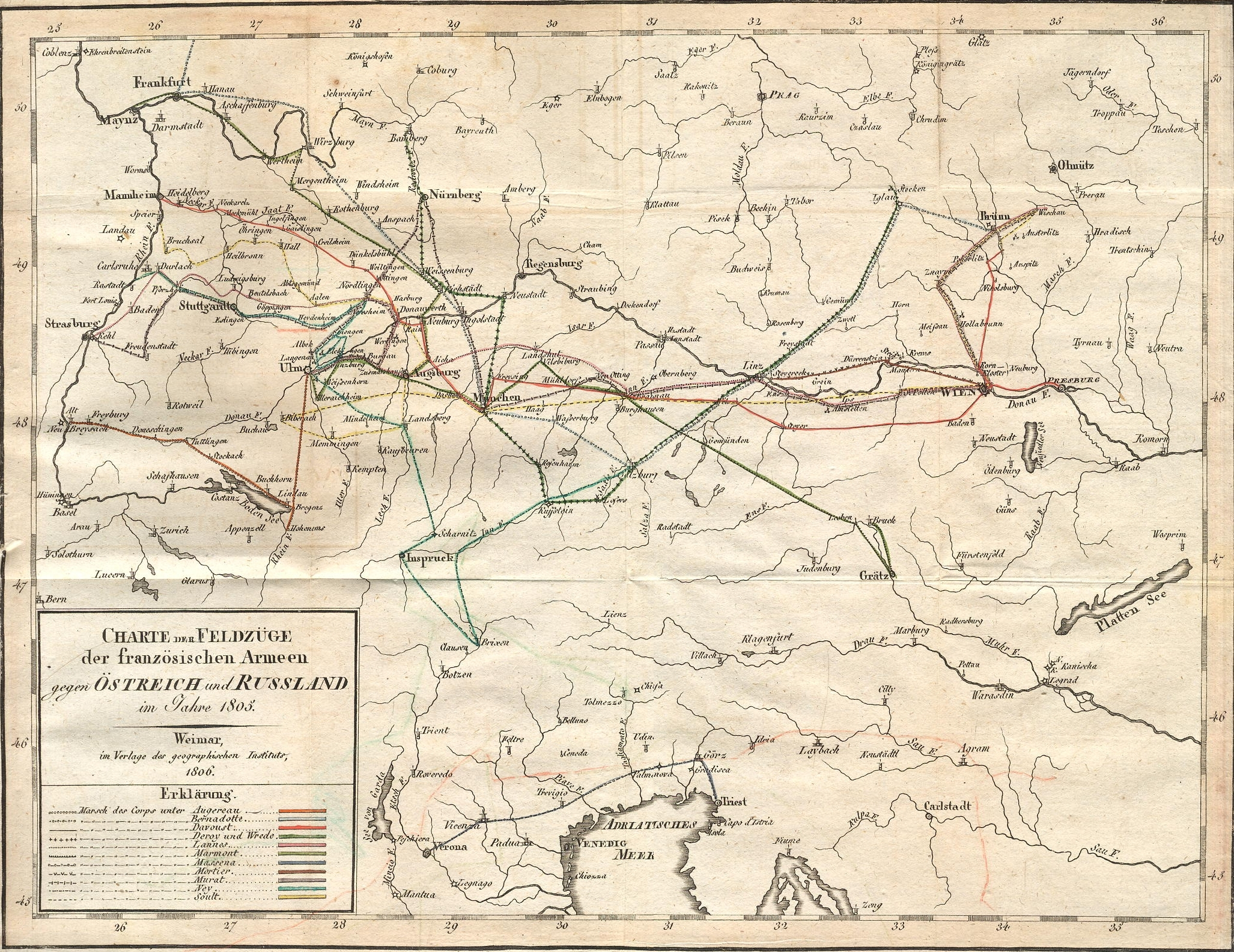 Map of central Europ Movements French Army of Napoleon Ulm Austerlitz Crossing of the Rhin